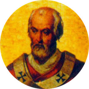 Portait of Pope Eugene III in the Basilica of Saint Paul Outside the Walls, Rome